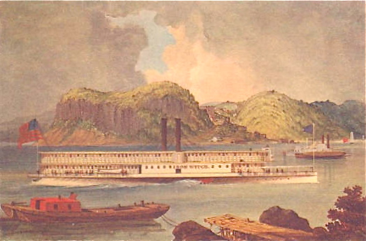 Iron Witch, Hudson River steamboat, from a postcard which reproduces a painting by John V. Cornell.